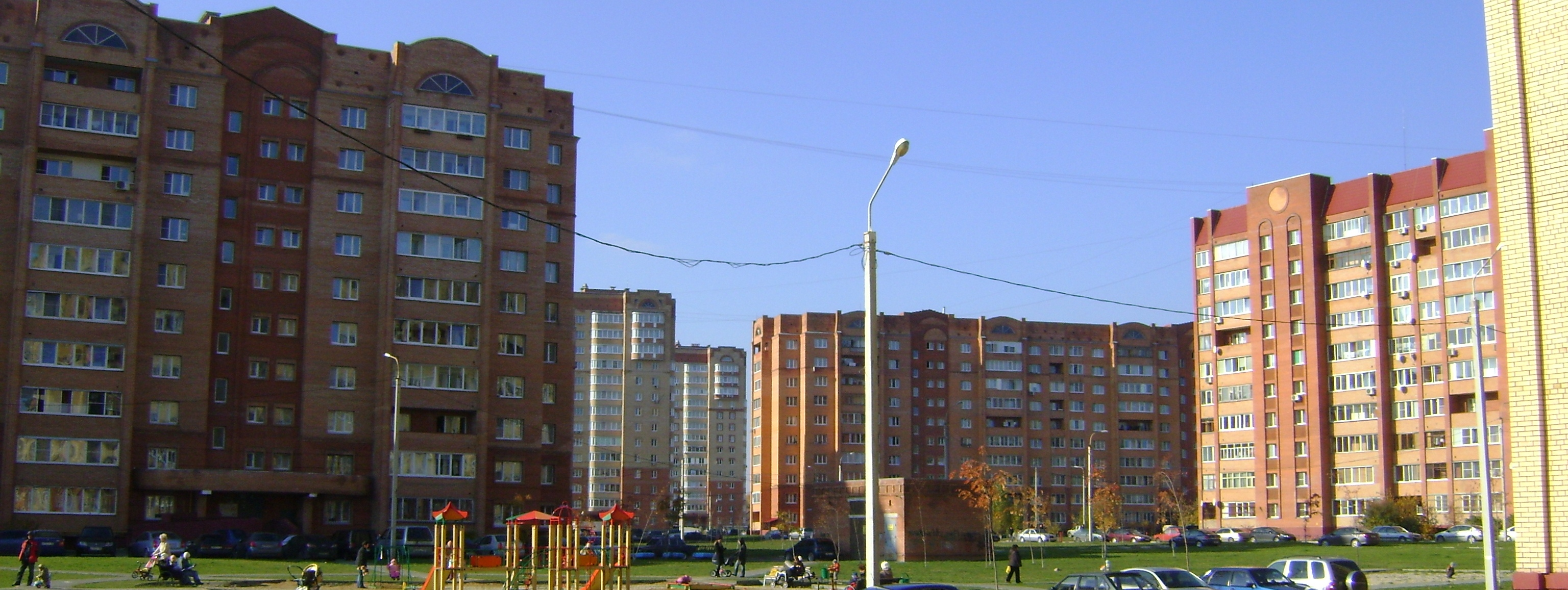 Domodedovo panorama